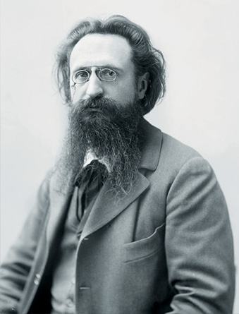 Jules Guesde, by Nadar.